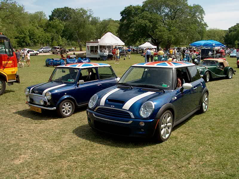 (left) A classic Mini (right) a modern BMW MINI.